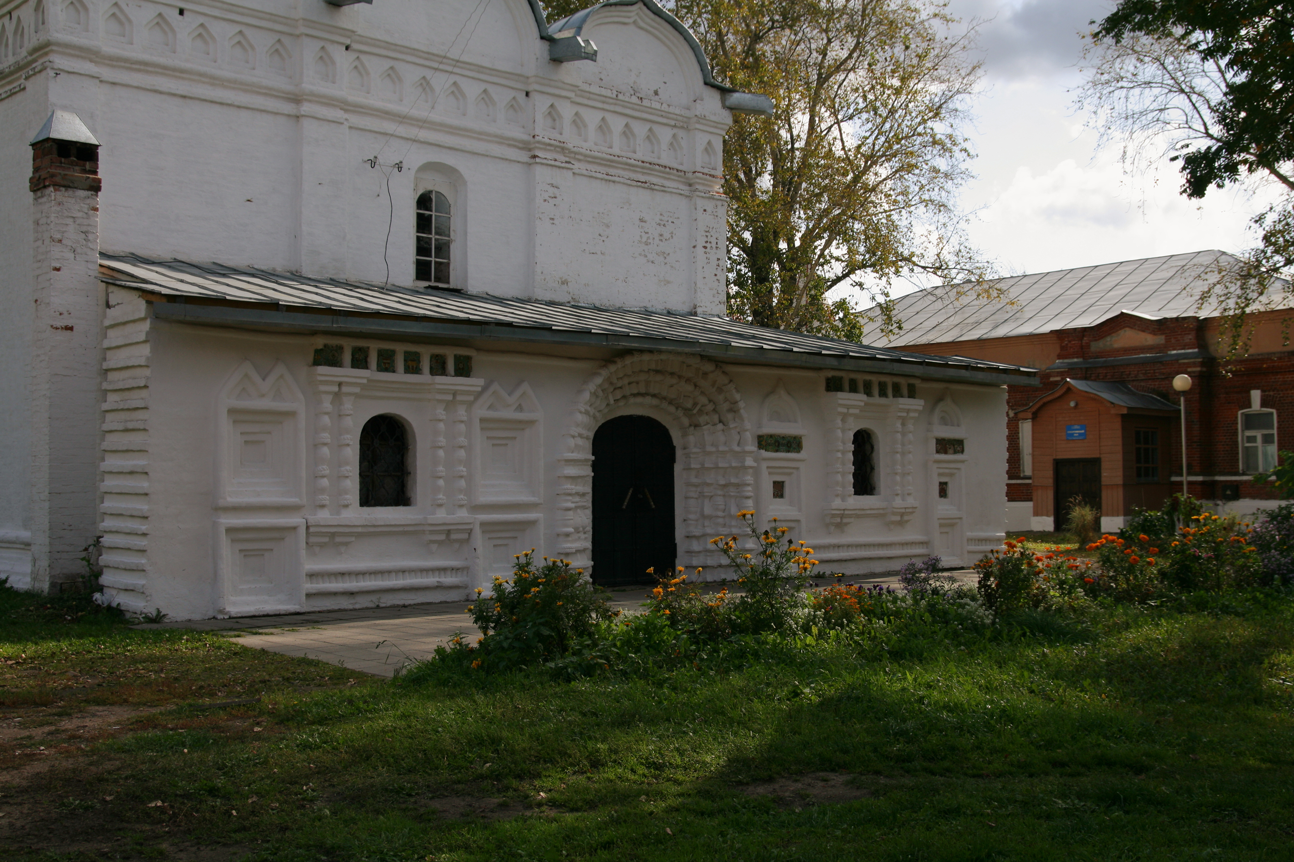 Portal of the Rizopolozhensky Cathedral, Rizopolozhensky Monastery, Suzdal